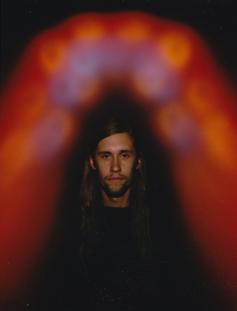 Auraphoto of Jaakko